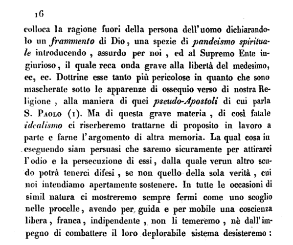 In 1838, Italian phrenologist Luigi Ferrarese in his Memorie Riguardanti la Dottrina Frenologica ("Thoughts Regarding the Doctrine of Phrenology") critically described Victor Cousin's philosophy as a doctrine which "locates reason outside the human person, declaring man a fragment of God, introducing a sort of spiritual pandeism, absurd for us, and injurious to the Supreme Being." (Dottrina, che pel suo idealismo poco circospetto, non solo la fede, ma la stessa ragione offende (il sistema di Kant): farebbe mestieri far aperto gli errori pericolosi, così alla Religione, come alla Morale, di quel psicologo franzese, il quale ha sedotte le menti (Cousin), con far osservare come la di lui filosofia intraprendente ed audace sforza le barriere della sacra Teologia, ponendo innanzi ad ogn'altra autorità la propria: profana i misteri, dichiarandoli in parte vacui di senso, ed in parte riducendoli a volgari allusioni, ed a prette metafore; costringe, come faceva osservare un dotto Critico, la rivelazione a cambiare il suo posto con quello del pensiero istintivo e dell' affermazione senza riflessione e colloca la ragione fuori della persona dell'uomo dichiarandolo un frammento di Dio, una spezie di pandeismo spirituale introducendo, assurdo per noi, ed al Supremo Ente ingiurioso, il quale reca onda grave alla libertà del medesimo, ec, ec.)